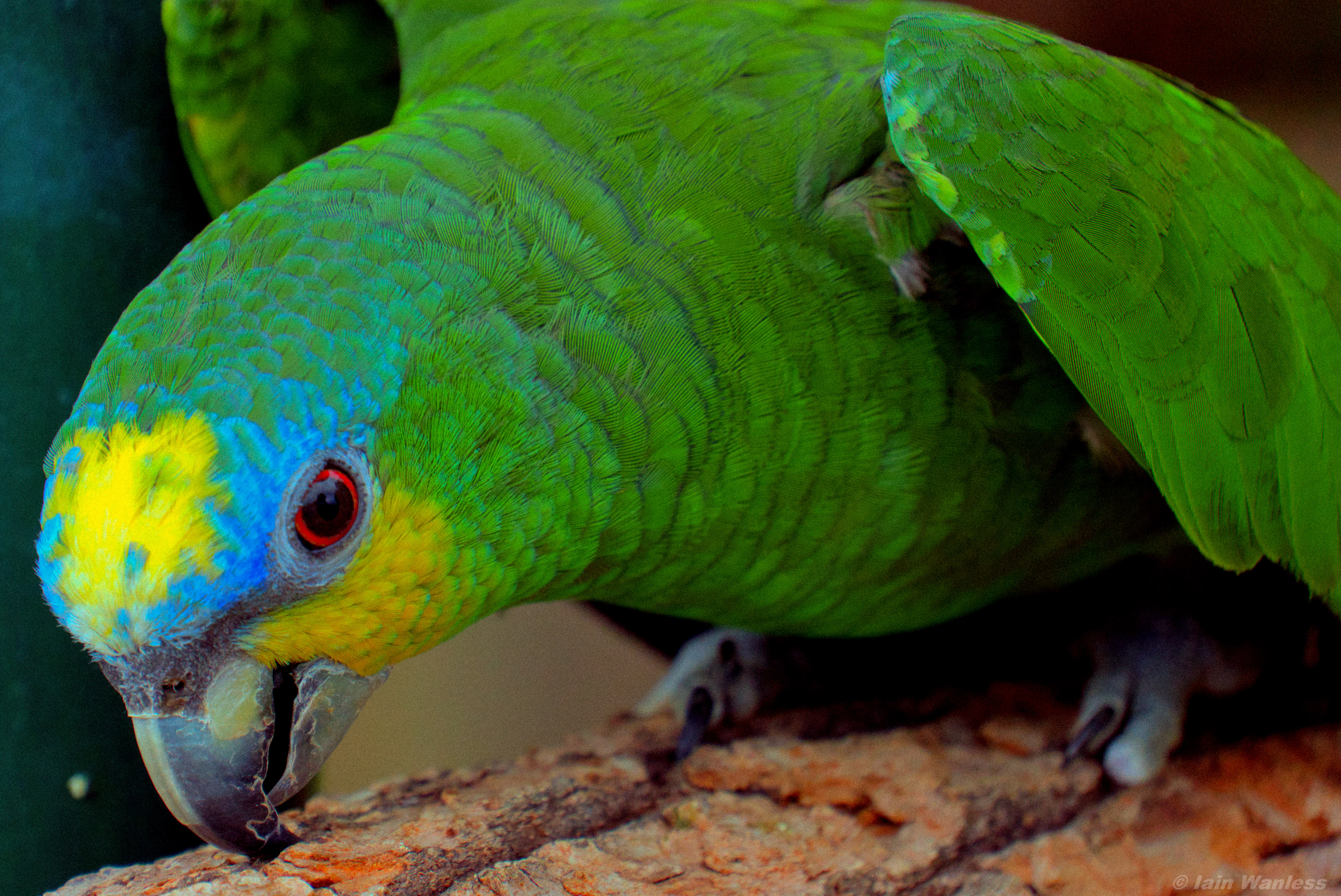 An Orange-winged Amazon in Longleat, Wiltshire, England.